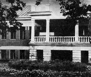 main house in kokino park (historic)